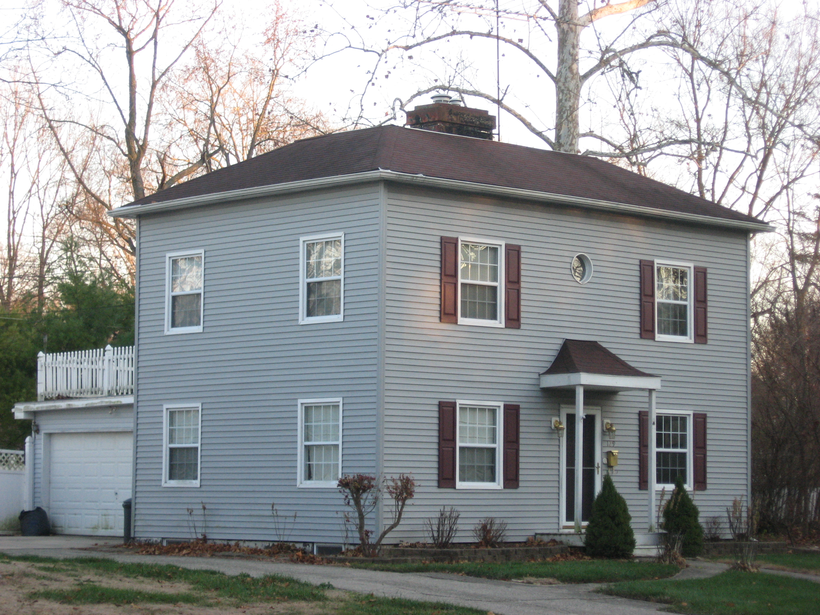 Front of the House at 129 South Ridge, located at 129 S. Ridge Avenue in Troy, Ohio, United States. Built in 1942, it is listed on the National Register of Historic Places.